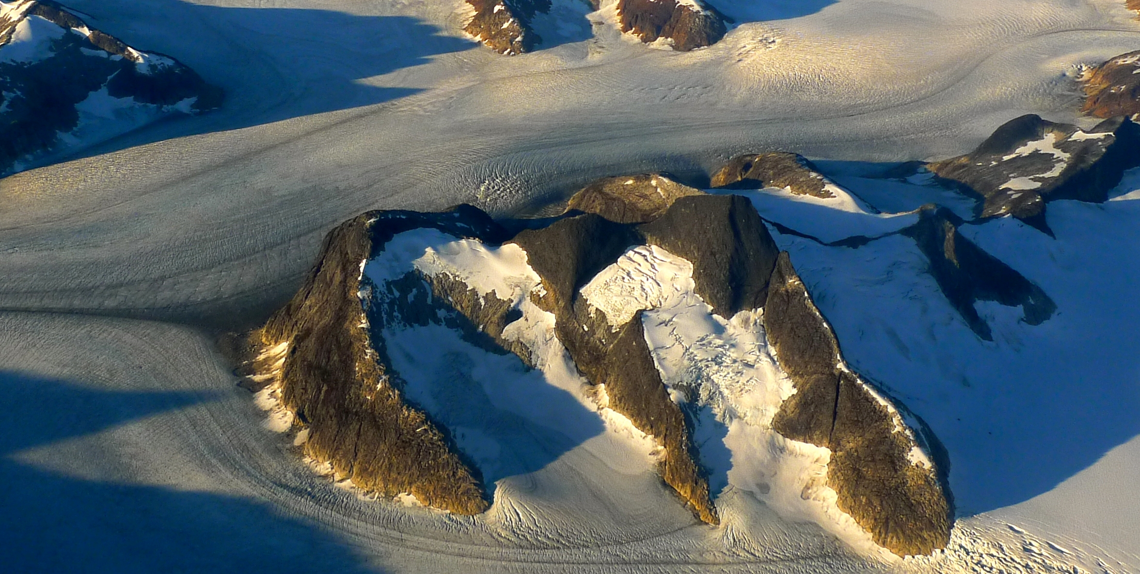 Airliner view of the north aspect of Guardian Mountain surrounded by Norris Glacier at Juneau Icefield.